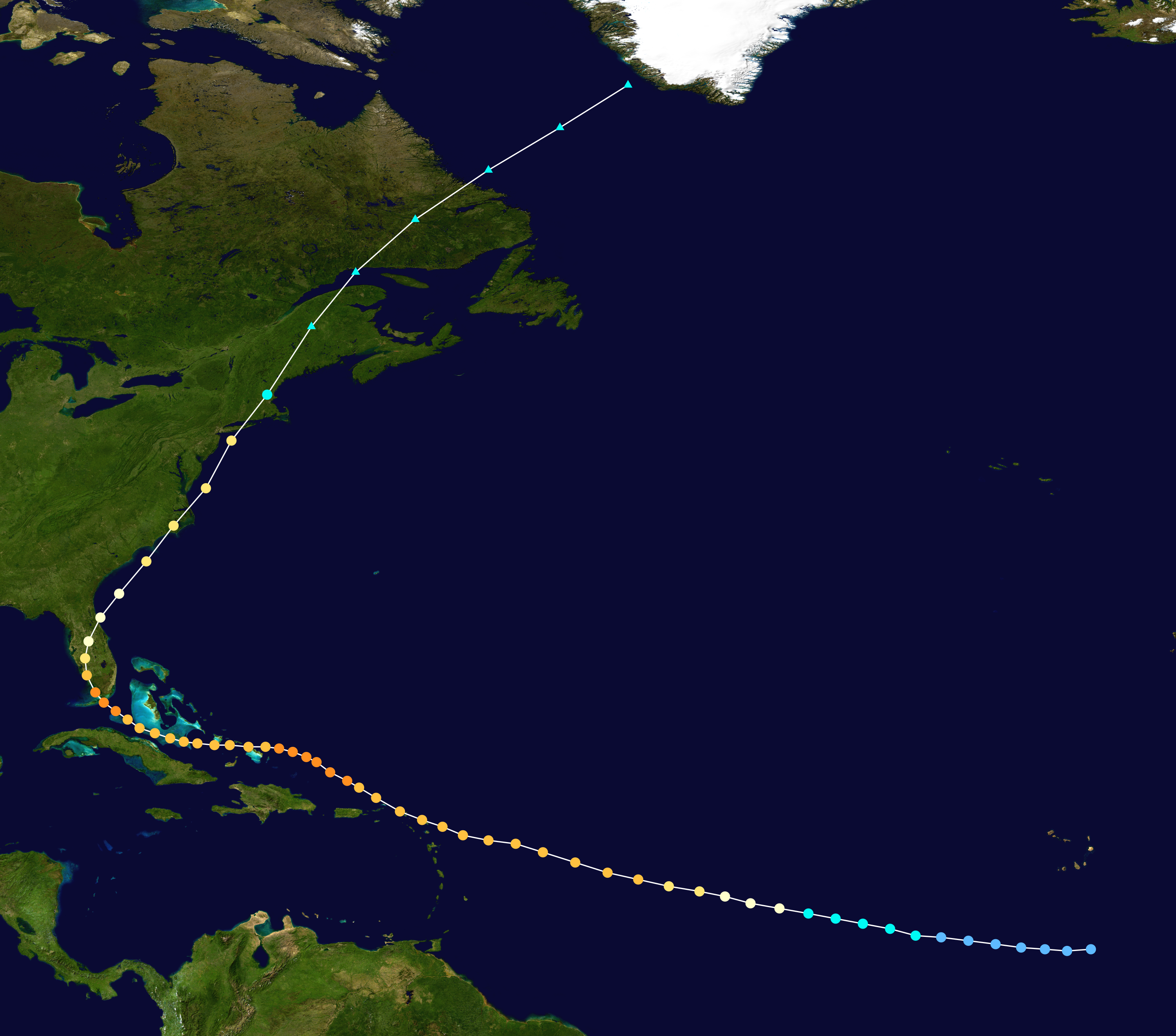 Hurricane Donna (1960) track. Uses the color scheme from the Saffir-Simpson Hurricane Scale.